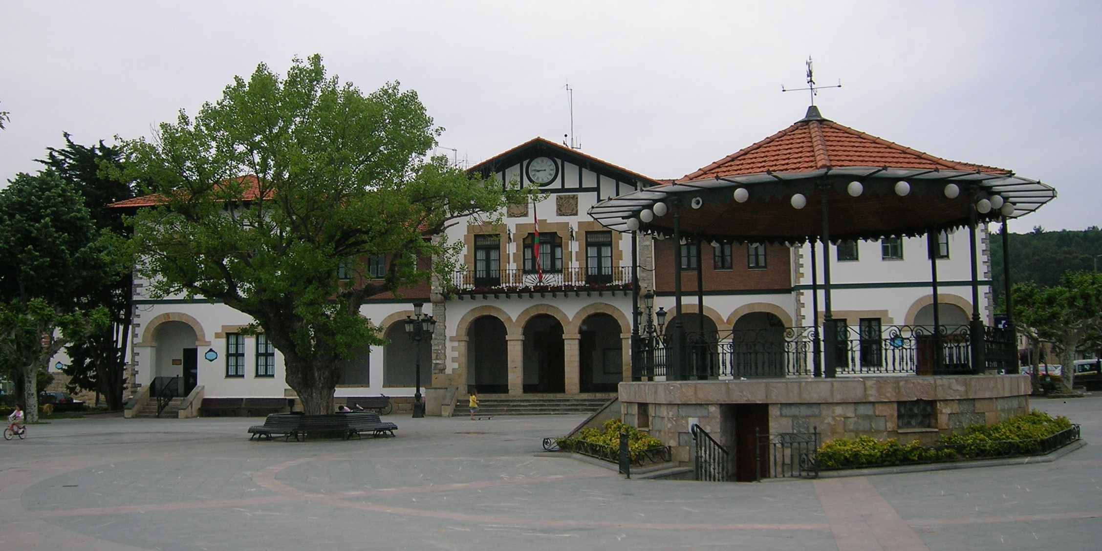 Astillero (Shipbuilding) Plaza of Plentzia with music kiosc and town council hall